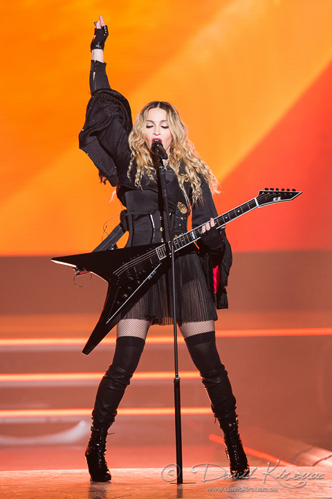 Rebel Heart Tour opening night